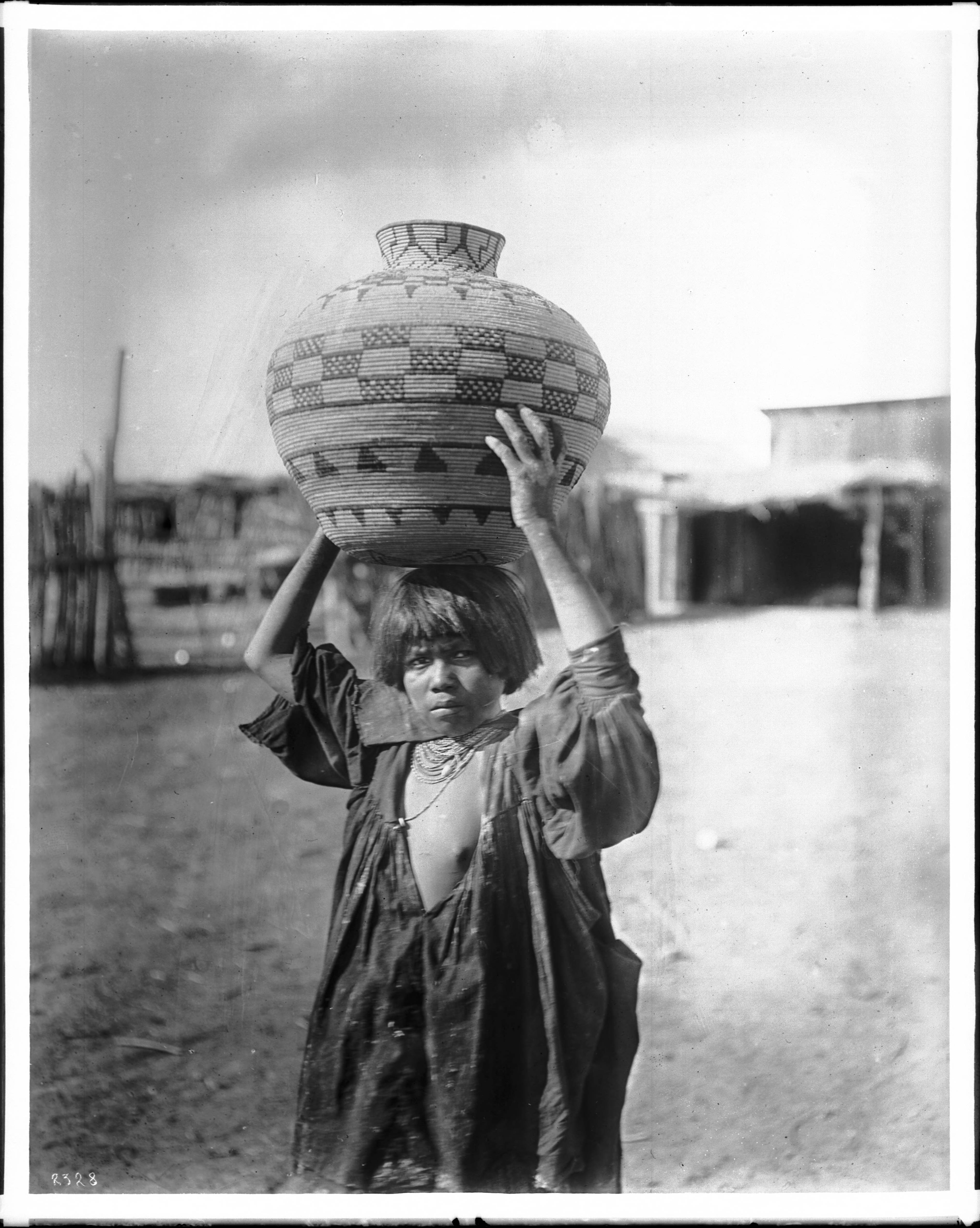 Apache Indian girl carrying an olla (a water basket) on her head, ca.1900 Photograph of an Apache Indian girl carrying an olla (a water basket) on her head, ca.1900. The basket is decoratively woven. The girl is balancing the olla with the help of both hands. She is wearing a light-colored shift open in the front. She is wearing numerous beaded necklaces around her neck. Her dark hair is cropped short at about neck level. A few dwellings are visible (out of focus) in the background. Call number: CHS-2328; CHS-3577 Photographer: Pierce, C.C. (Charles C.), 1861-1946 Filename: CHS-2328; CHS-3577 Coverage date: circa 1900 Part of collection: California Historical Society Collection, 1860-1960 Type: images Part of subcollection: Title Insurance and Trust, and C.C. Pierce Photography Collection, 1860-1960 Repository name: USC Libraries Special Collections Format: glass plate negatives Microfiche number: 1-161-; 1-162- Repository address: Doheny Memorial Library, Los Angeles, CA 90089-0189 Geographic subject (country): USA Format (aacr2): 4 photographs : glass photonegatives, photoprints, b&w ; 26 x 21 cm., 22 x 17cm. Rights: Digitally reproduced by the USC Digital Library; From the California Historical Society Collection at the University of Southern California Subject (adlf): tribal areas Project: USC Accession number: 2328; 3577 Repository Contributing entity: California Historical Society Date created: circa 1900 Publisher (of the digital version): University of Southern California. Libraries Format (aat): photographic prints; photographs Legacy record ID: chs-m6703; USC-1-1-1-13477 Access conditions: Send requests to address or e-mail given. Phone (213) 821-2366; fax (213) 740-2343. Subject (file heading): Indians -- Apache Subject (lcsh): Indians of North America; Apache Indians; Dwellings; Women; Baskets; Clothing and dress Subject: Apache Indians